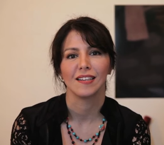 شبنم طلوعی در گفتگو با برنامه شباهنگ صدای آمریکا